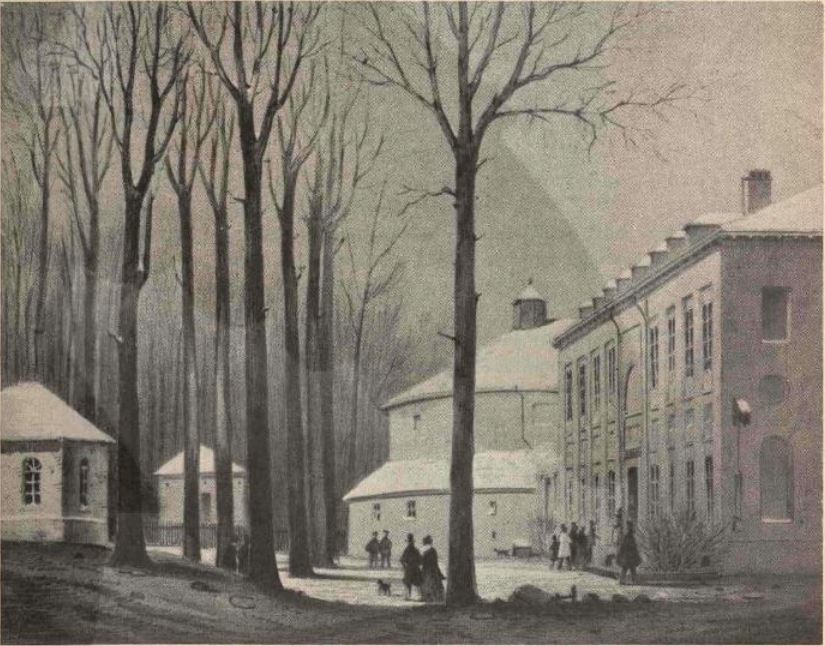 The Café Velloni in the Park of Brussels, c. 1850 (occupying the old Vaux Hall building by Montoyer)